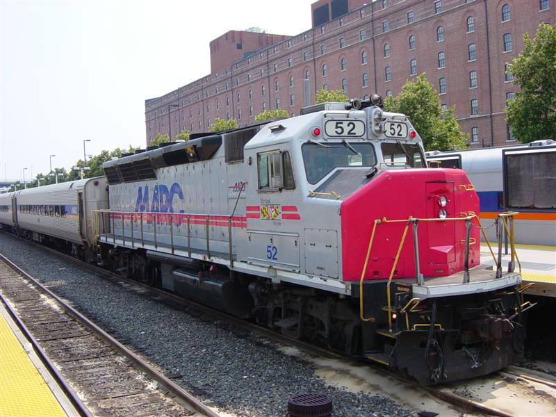 MARC GP40WH-2 No. 52 at Baltimore, Maryland, USA July 2, 2004